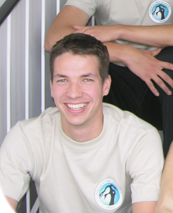 Heikkilä Teppo volleyball player.